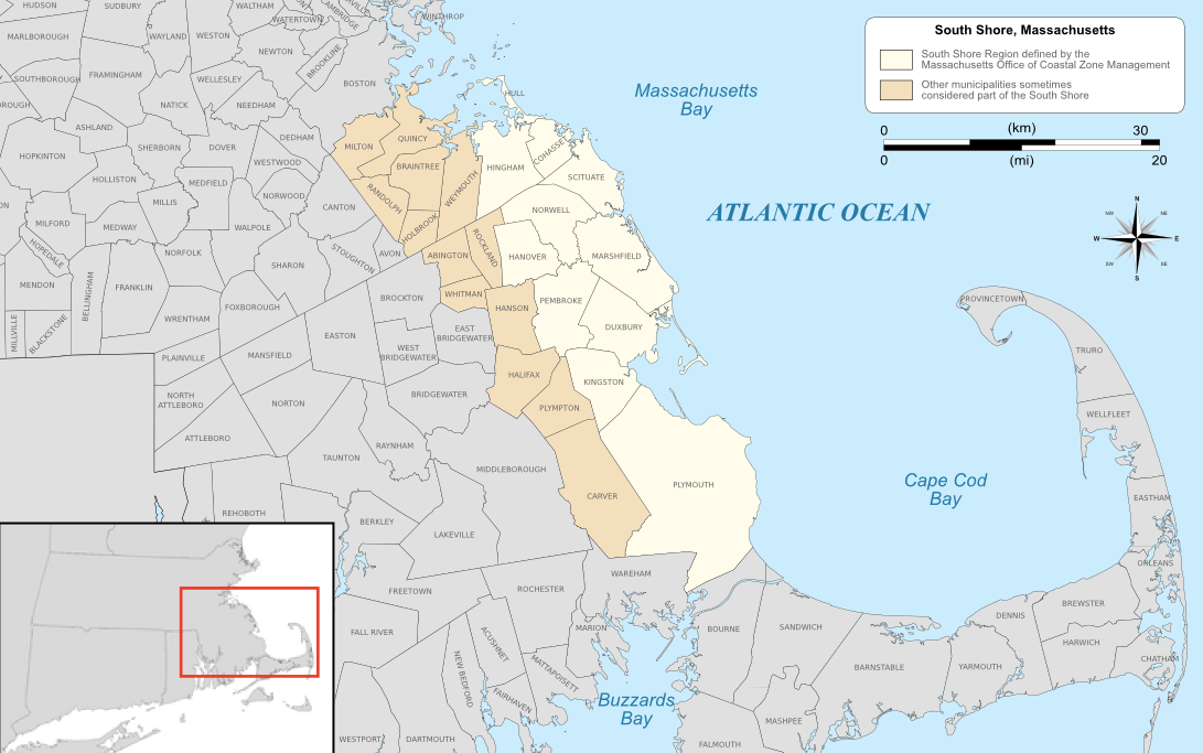 Map of the South Shore region of Massachusetts highlighted in yellow based on the region defined by the Massachusetts Office of Coastal Zone Management, with areas sometimes included in the region on other lists highlighted in light brown.